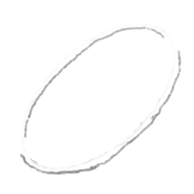 A white ellipse.